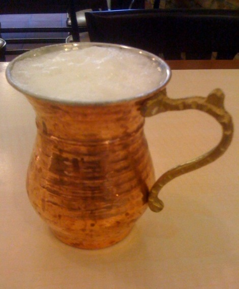 A cold glass of Ayran, served in tinned copper.